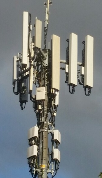 Cellular mobile Antenna and Dipole Antenna - away view2